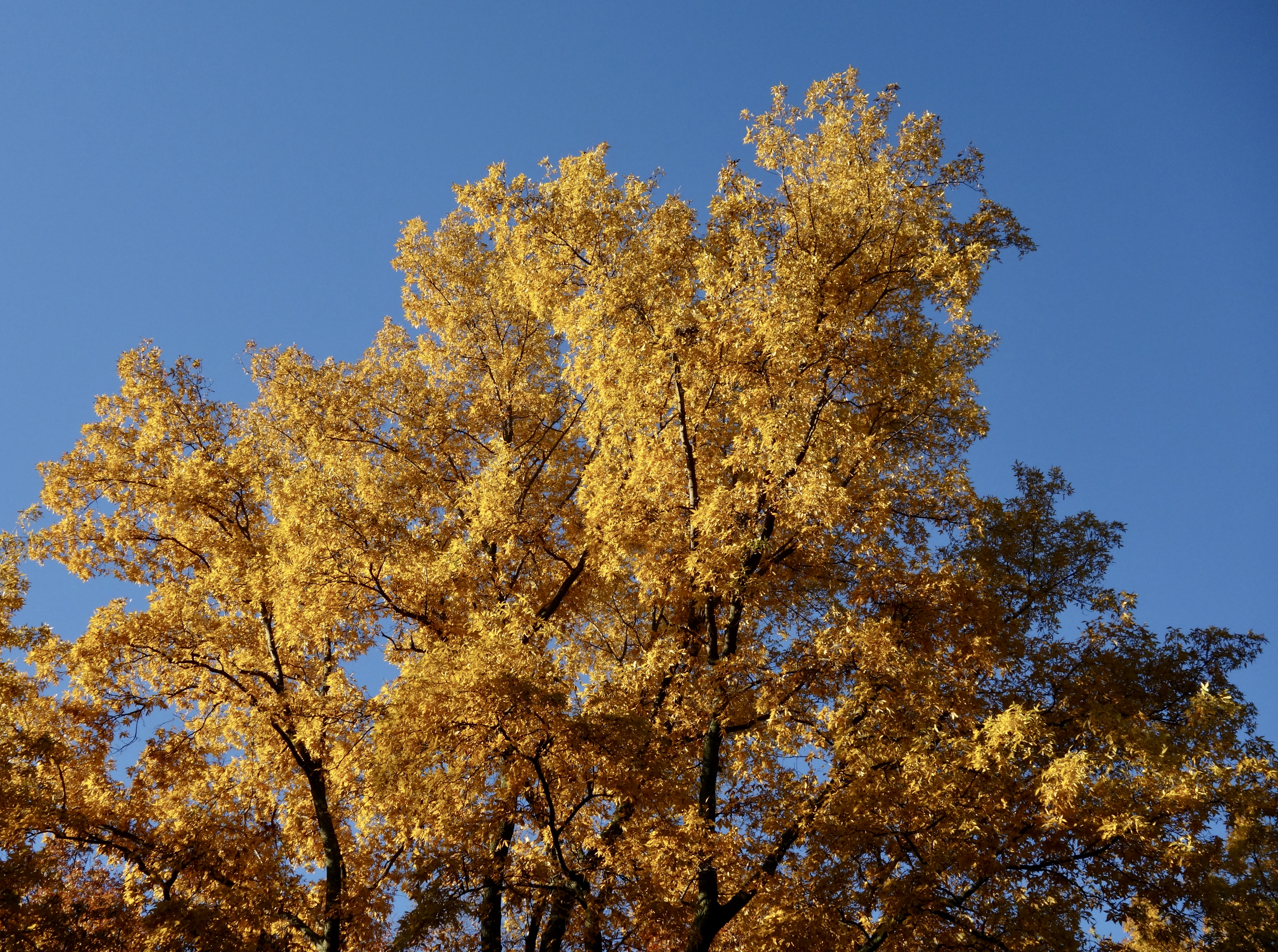 Carya cordiformis, 1940 accession (#22672*B), in fall, Arnold Arboretum of Harvard University.